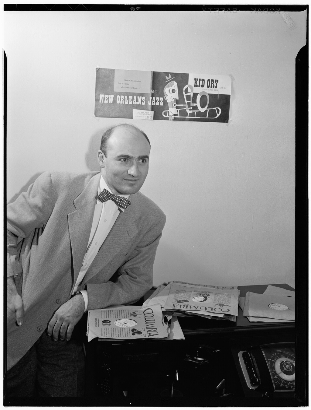 George Avakian. Photography by William P. Gottlieb